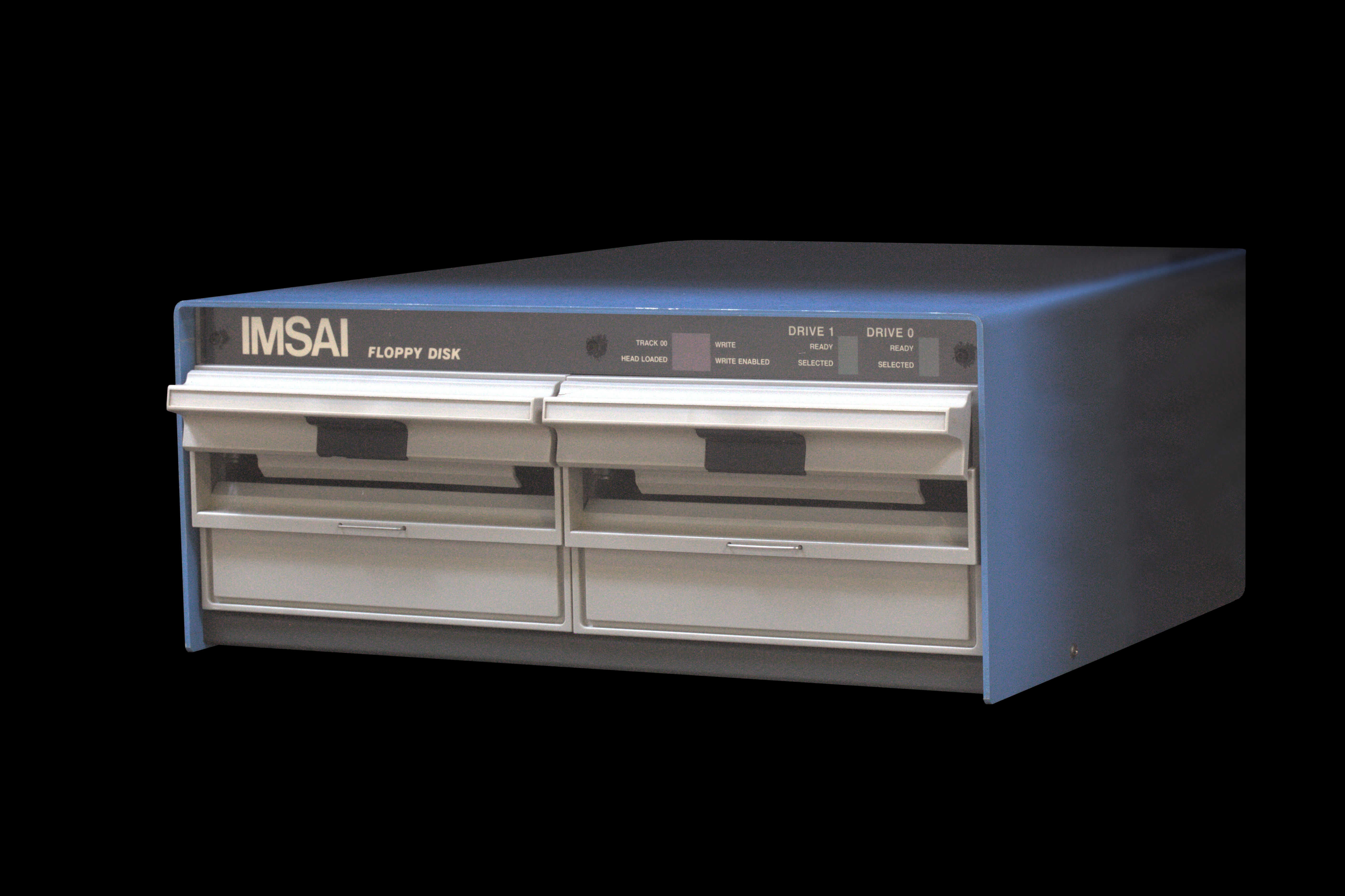 IMSAI 8080 double drive. On display at the Musée Bolo, EPFL, Lausanne. The making of this document was supported by Wikimedia CH.(Submit your project!) For all the files concerned, please see the category Supported by Wikimedia CH.